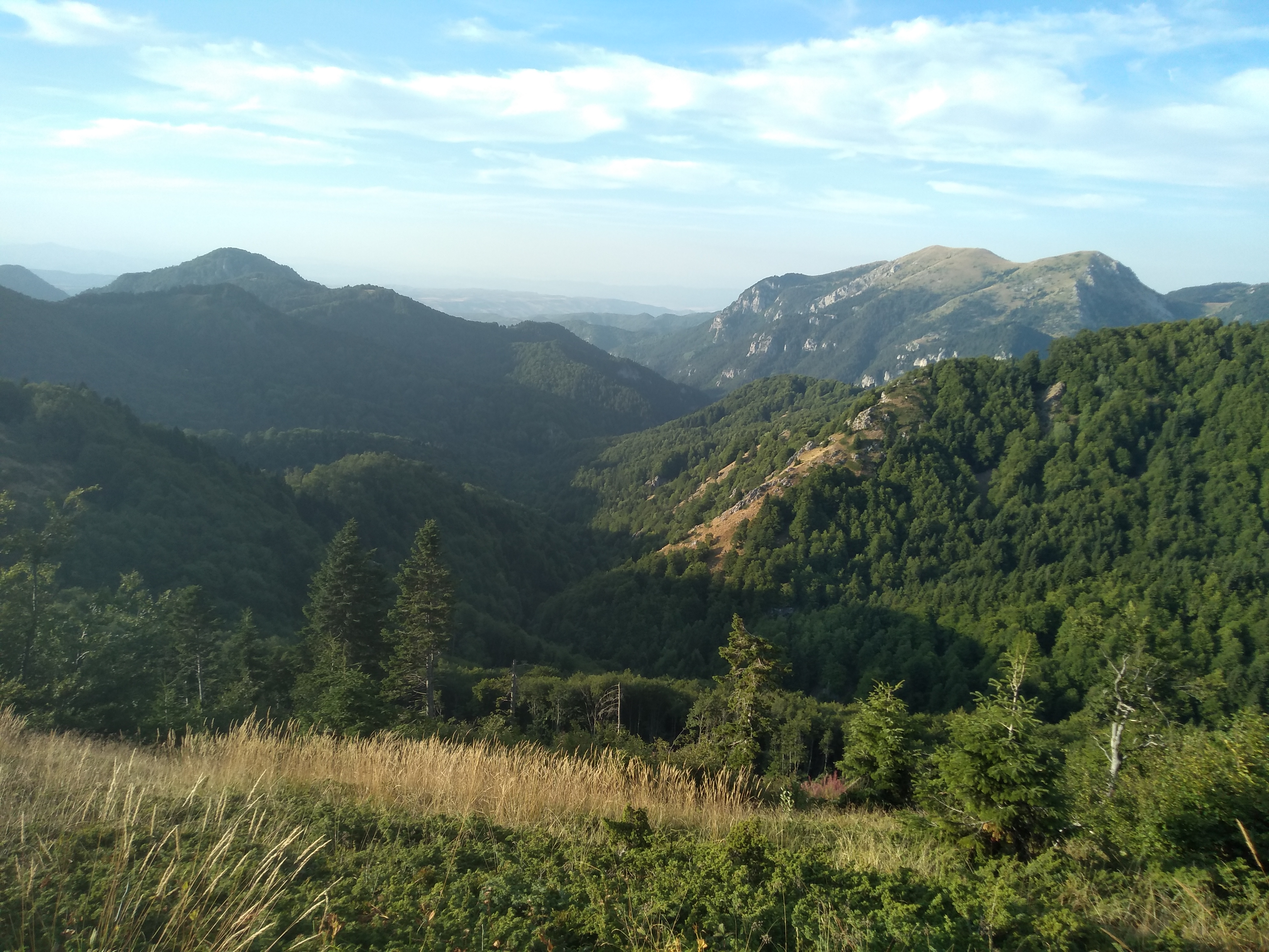 Kožuf mountain, Macedonia